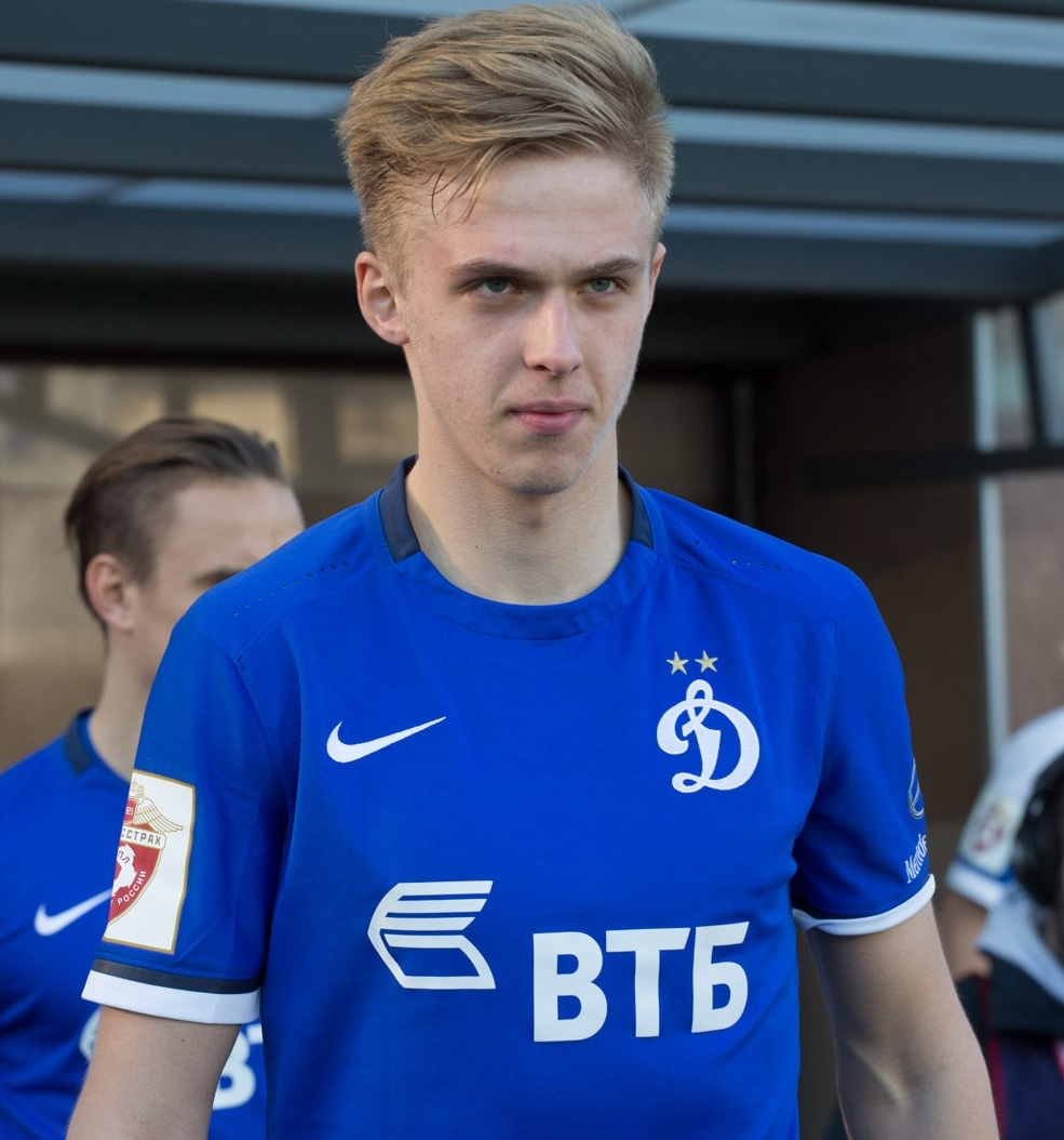 Anton Terekhov with FC Dynamo Moscow before the game against FC Krylia Sovetov Samara on 17 April 2016.